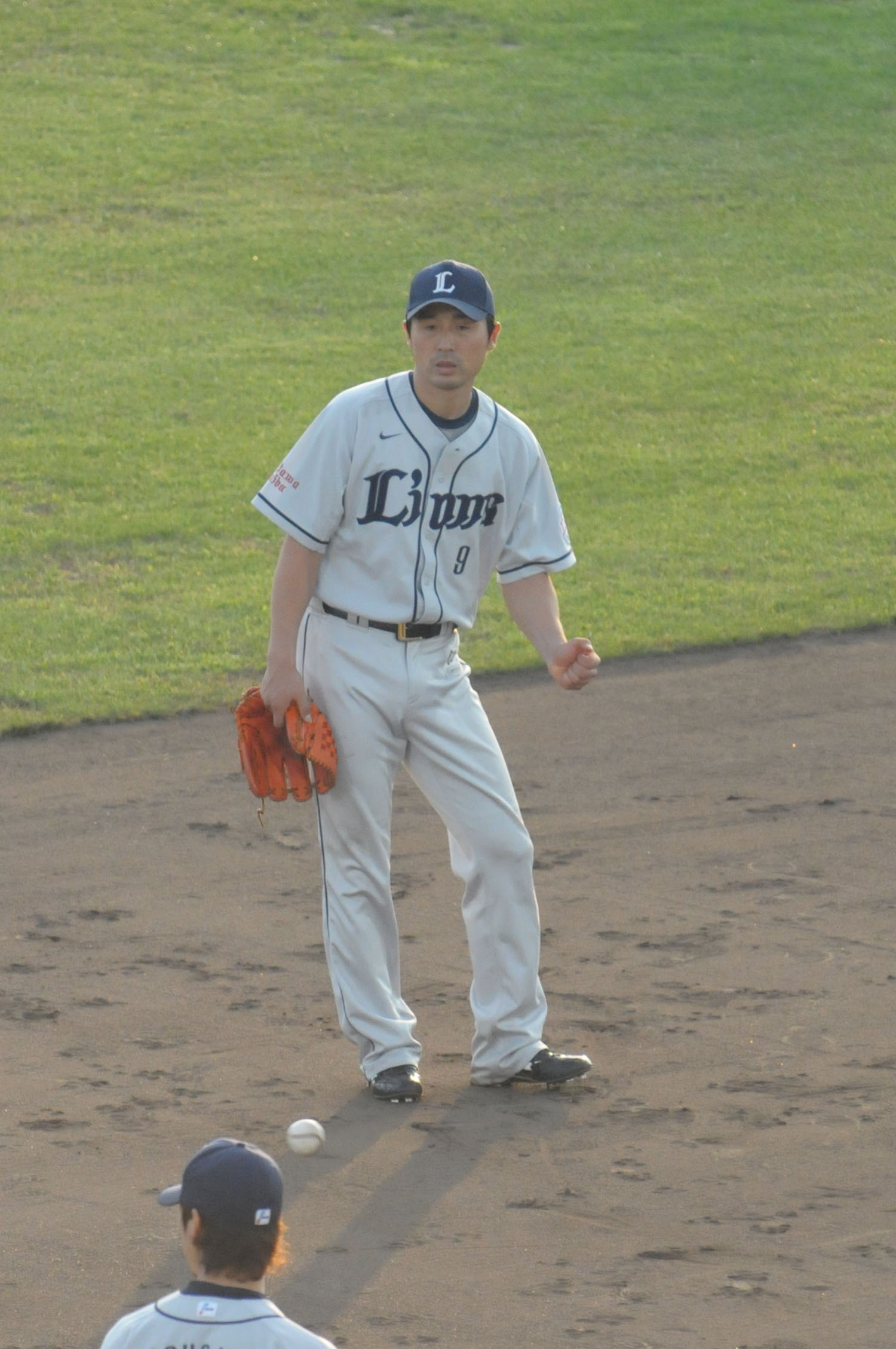 Masahiro Abe, infielder of the Saitama Seibu Lions, at Akita Prefectural Baseball Stadium.